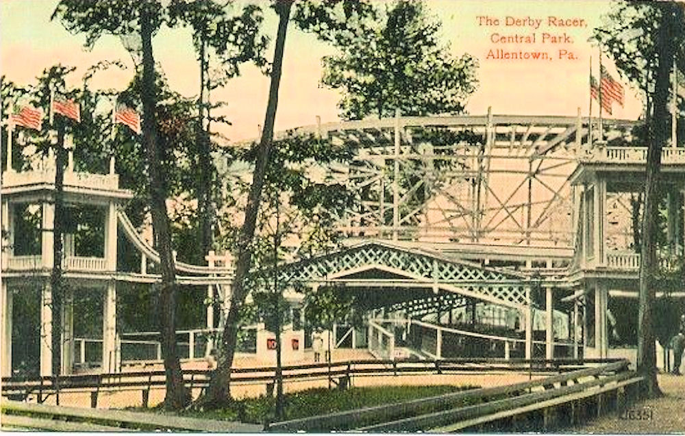 Central Park Roller Coaster - 1910